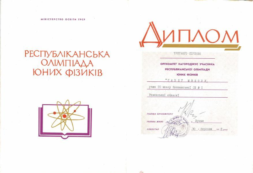 Diploma Grade 3 Republican competition of young physicists in Lutsk, 1978, Nicholas Gazda, Klevan SSH№1